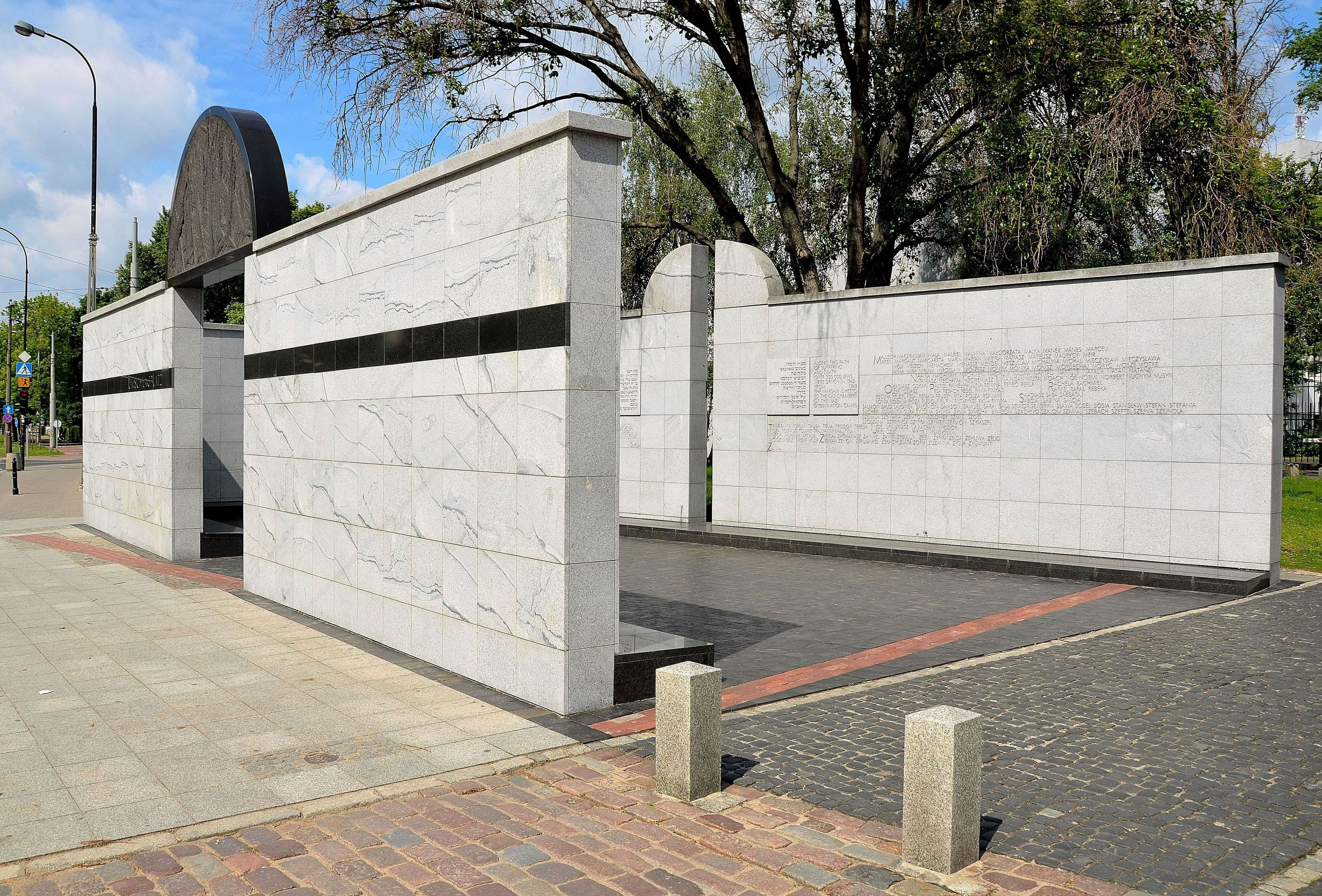 Umschlagplatz Monument in Warsaw. It was the place where Jews were gathered for deportation to the German death camps in Poland during Second World War.